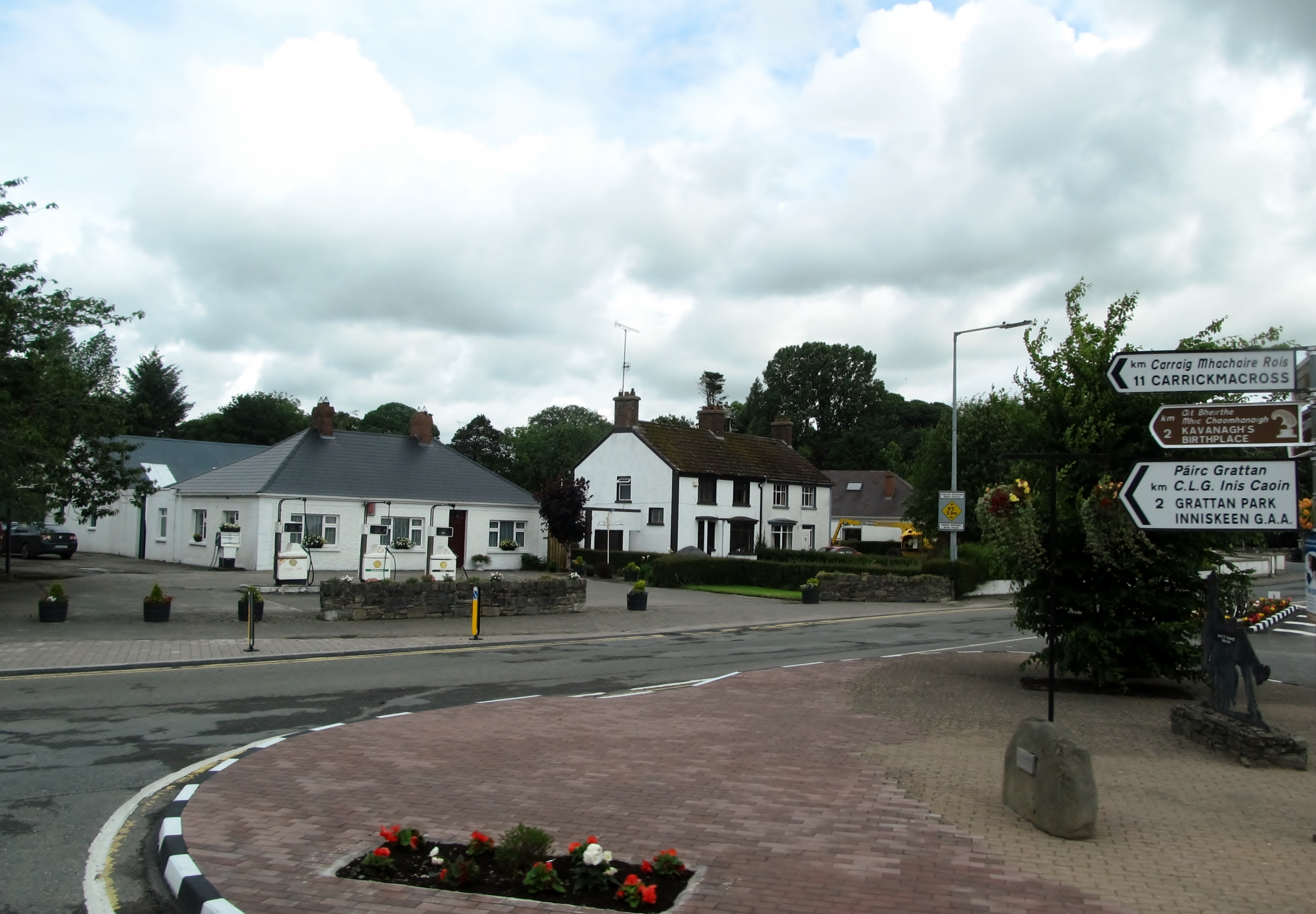 T-junction at the centre of Inniskeen